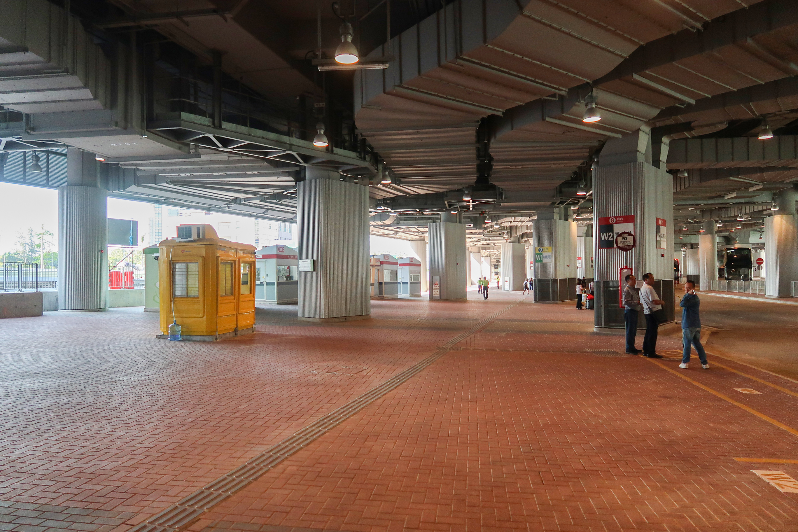 West Kowloon Station Bus Terminus